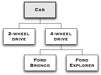 Part of an ontology of the vehicle domain